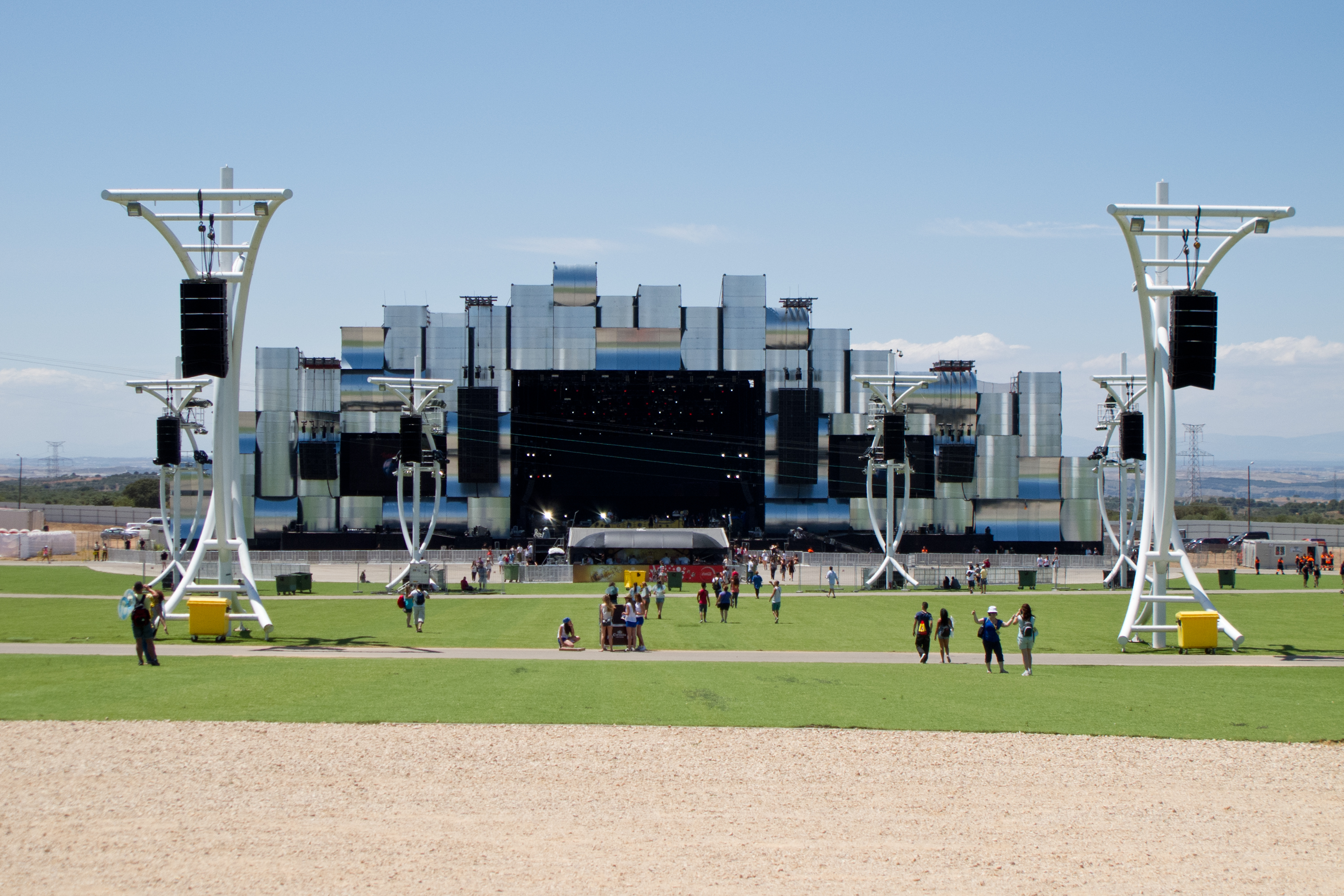 Rock in Rio Madrid 2012